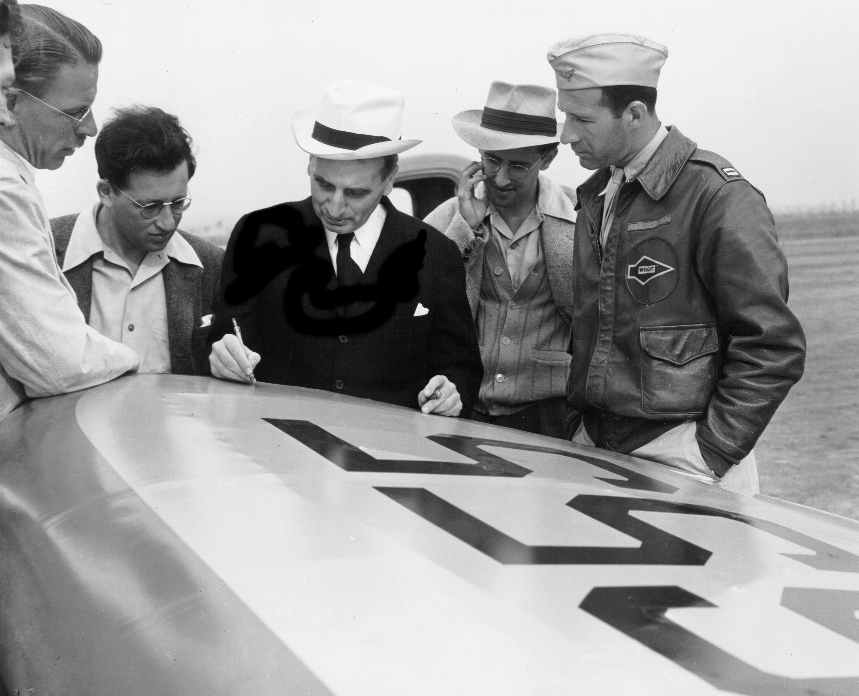 Dr. Theodore von Kármán (black coat) sketches out a plan on the wing of an airplane as his JATO engineering team looks on. From left to right: Dr. Clark B. Millikan, Dr. Martin Summerfield, Dr. Theodore von Kármán, Dr. Frank J. Malina and pilot, Capt. Homer Boushey. Captain Boushey would become the first American to pilot an airplane that used JATO (Jet Assisted Take-Off) solid propellant rockets. John Whitside Parsons, who developed the solid propellant, is cropped out on the extreme left.